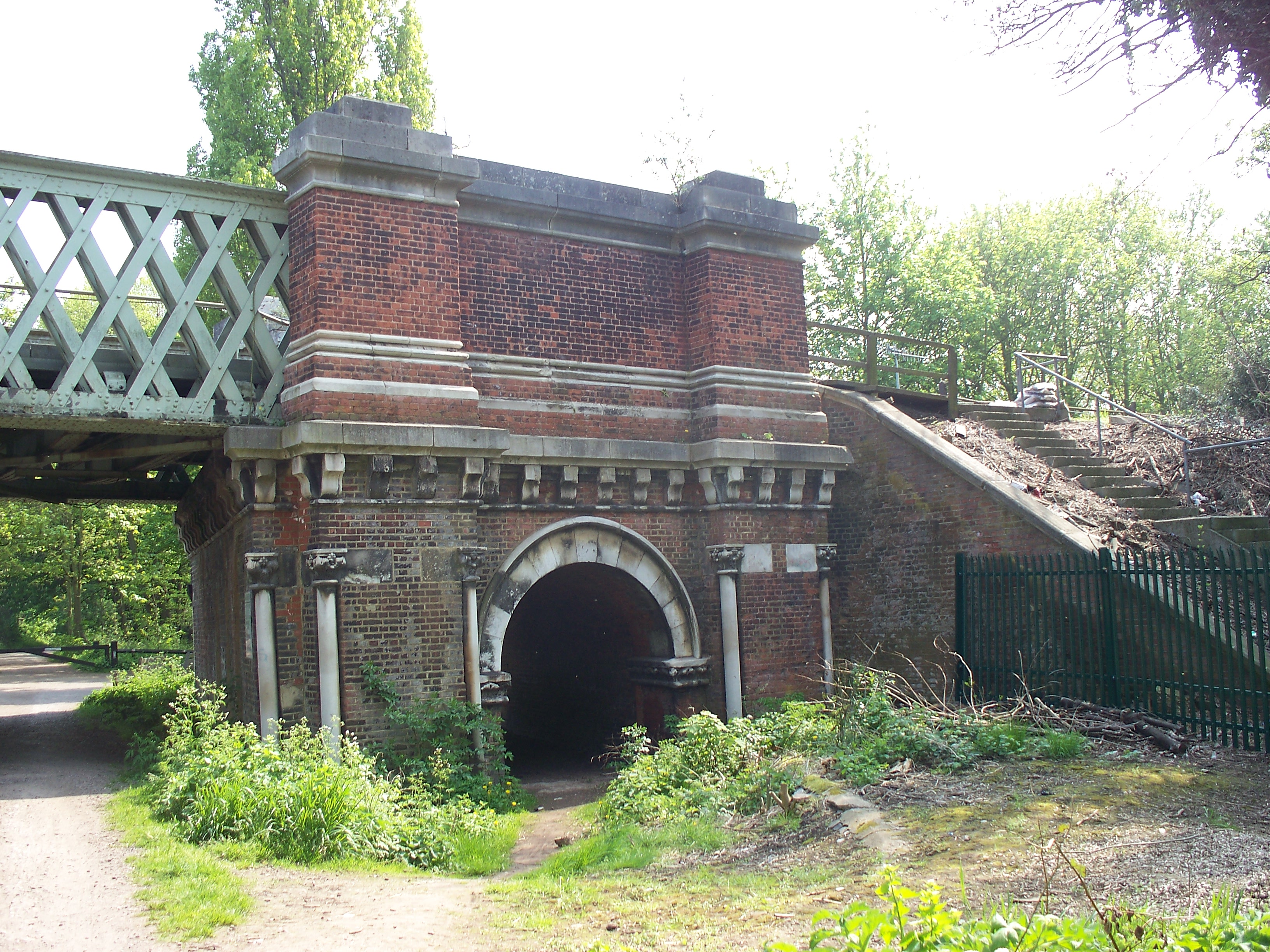 Kew Railway Bridge, Kew, London. Photograph taken in a public location in the UK of a building on permanent public display, and exempt from copyright under Section 62 of the Copyright Designs & Patents Act 1988 ("it is not an infringement of copyright to film, photograph, broadcast or make a graphic image of a building, sculpture, models for buildings or work of artistic craftsmanship if that work is permanently situated in a public place or in premises open to the public")